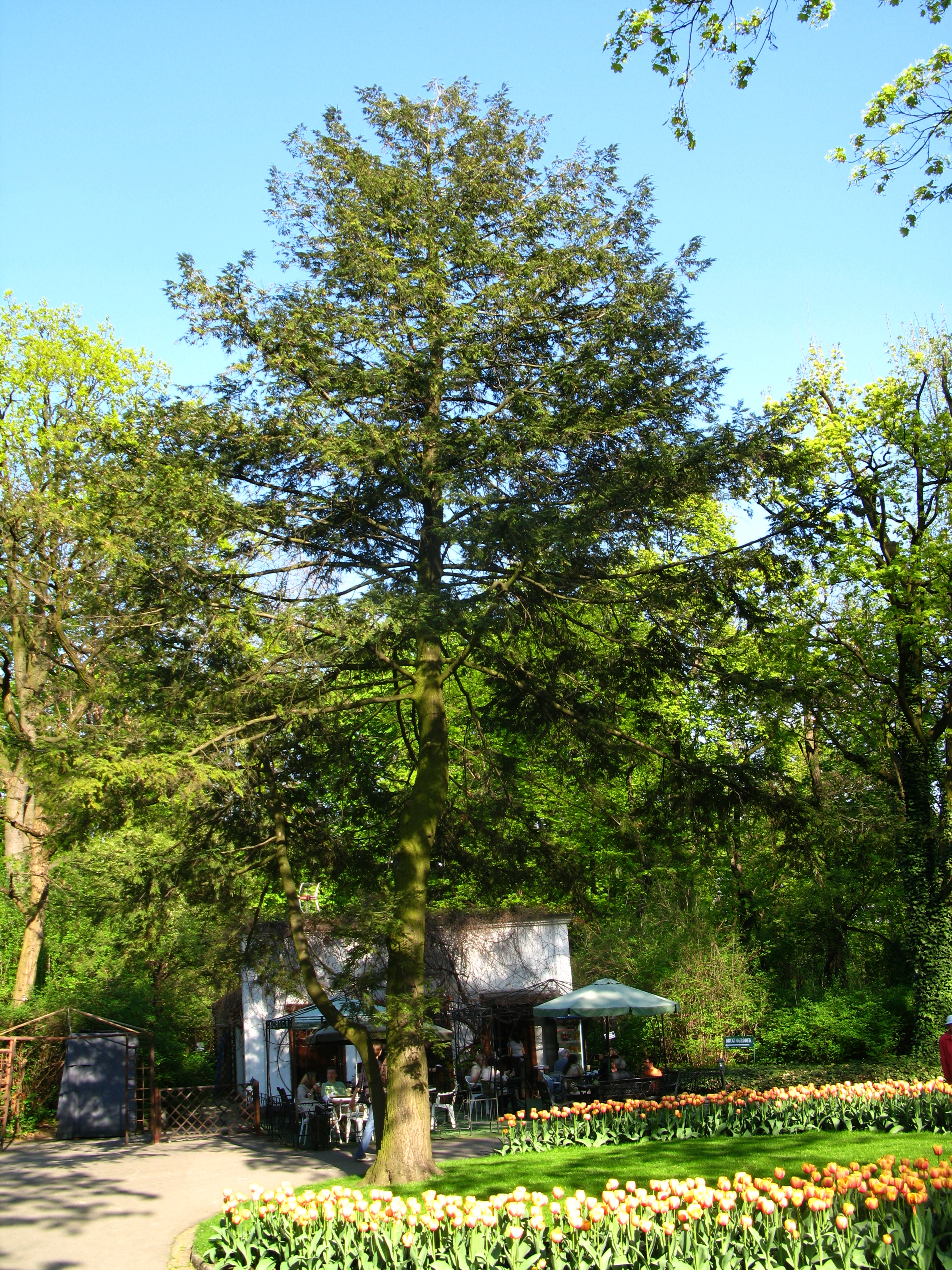 Tsuga canadensis in Royal Baths Park